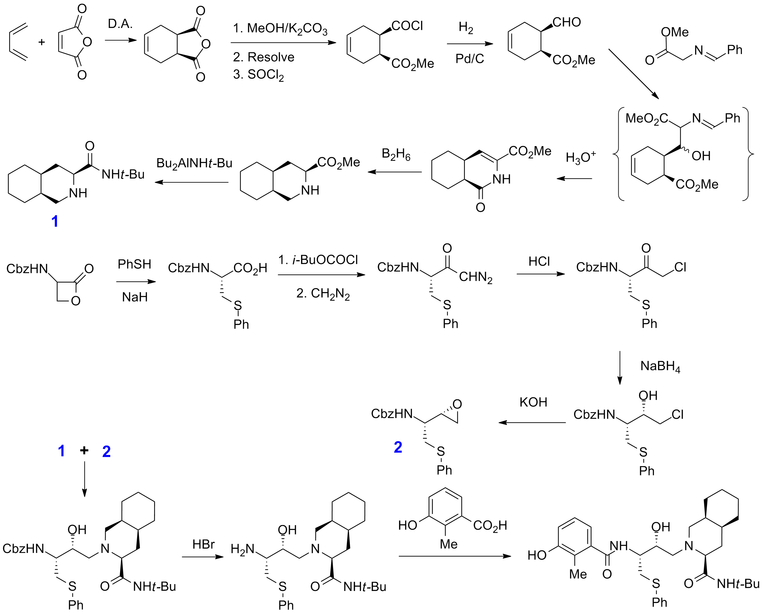 Drugs of the Future, Volume 22, Issue 4, April 1997; Nelfinavir Mesylate. Antiviral for AIDS, HIV-1 protease inhibitor. X. Rabasseda, A.M. Martel, J. Castañer.